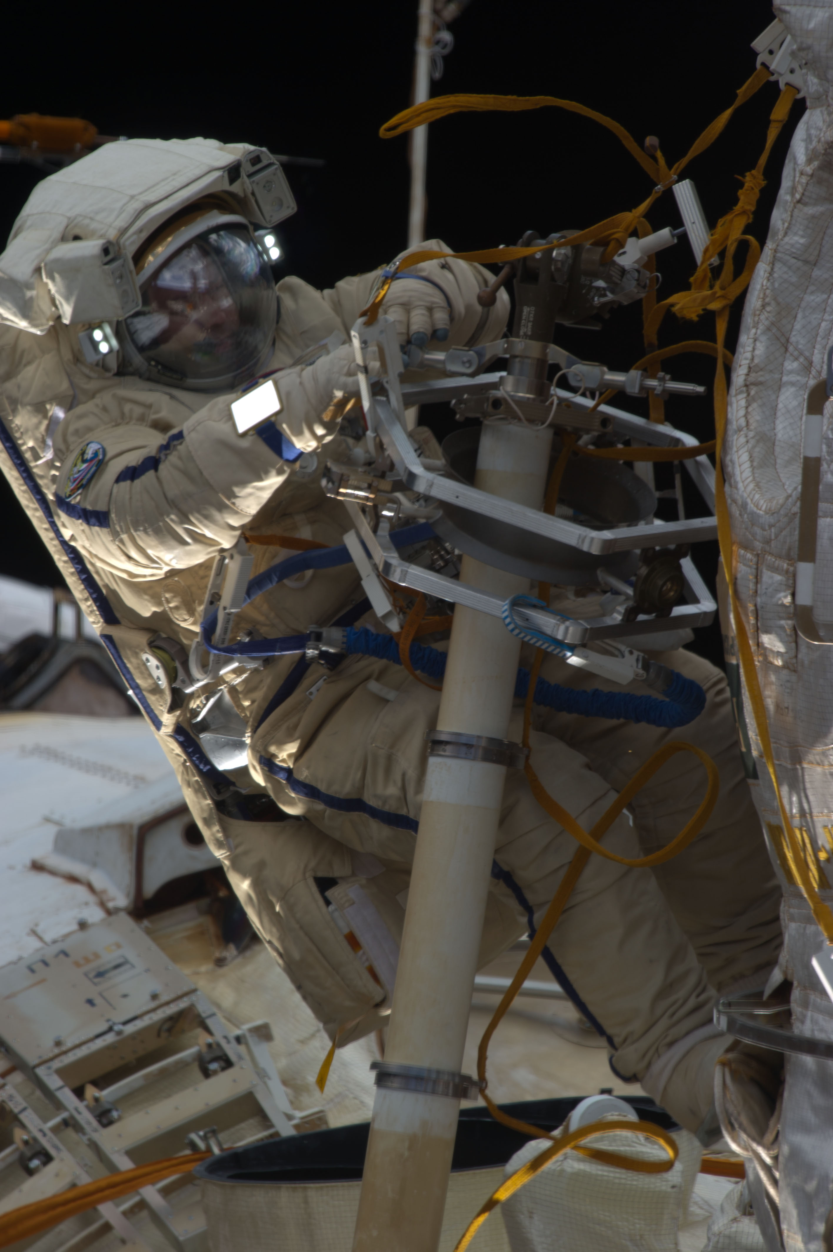 Russian cosmonaut Alexander Misurkin, Expedition 36 flight engineer, participates in a session of extravehicular activity (EVA) as work continues on the International Space Station. During the six-hour, 34-minute spacewalk, Misurkin and Russian cosmonaut Fyodor Yurchikhin (out of frame), Expedition 36 flight engineer, replaced an aging fluid flow control panel on the station's Zarya module as preventative maintenance on the cooling system for the Russian segment of the station. They also installed clamps for future power cables as an early step toward swapping the Pirs airlock with a new multipurpose laboratory module. The Russian Federal Space Agency plans to launch a combination research facility, airlock and docking port late this year on a Proton rocket. Yurchikhin and Misurkin also retrieved two science experiments and installed a new one.